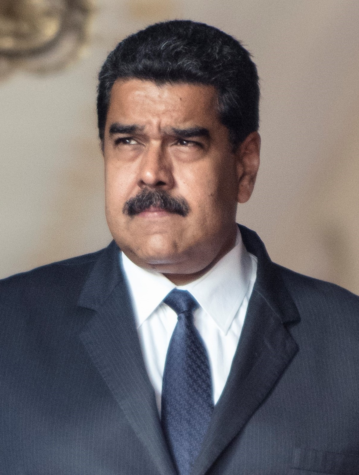 Nicolás Maduro, president of Venezuela 2016.